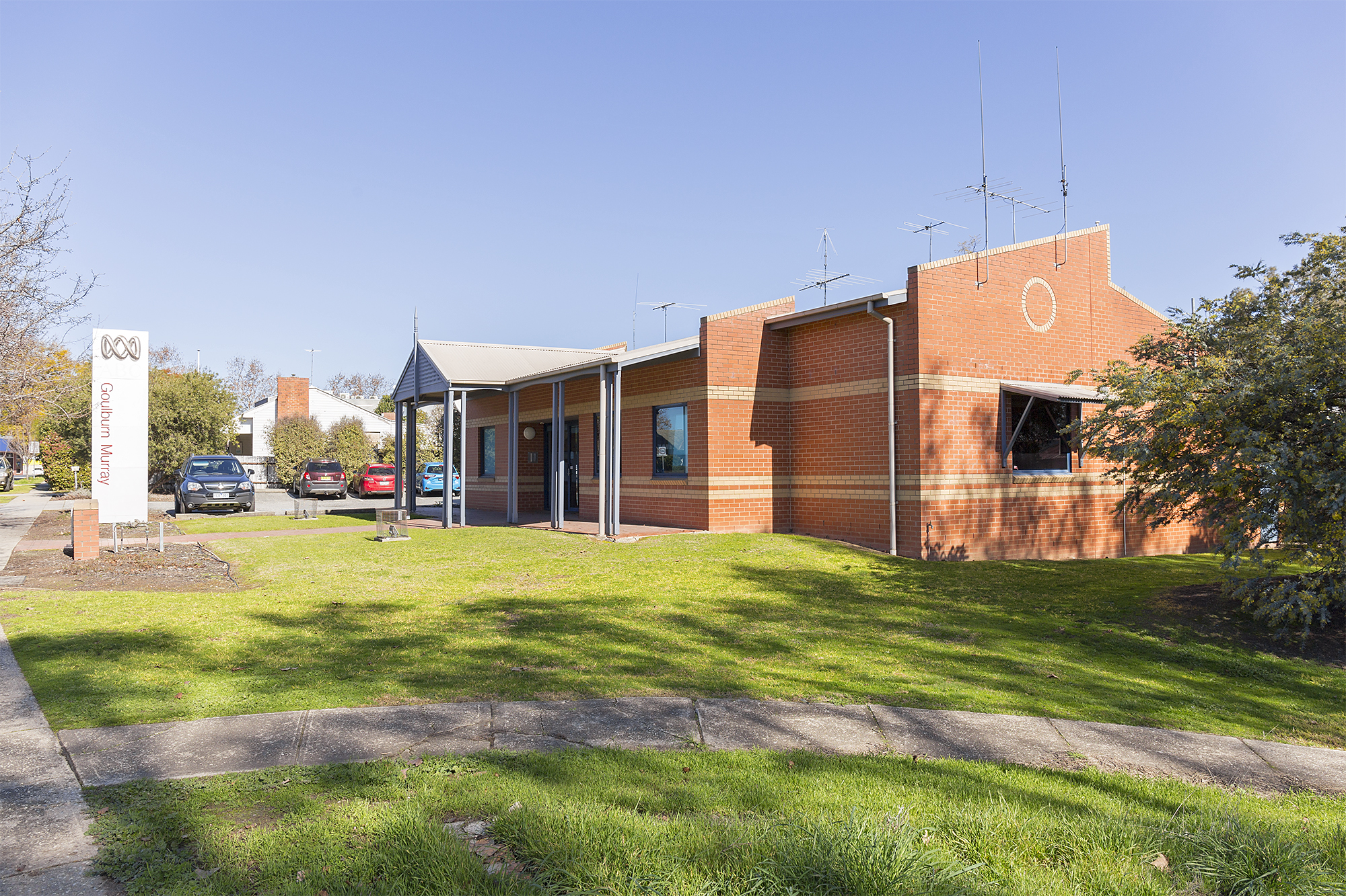 ABC Goulburn Murray on High Street, Wodonga